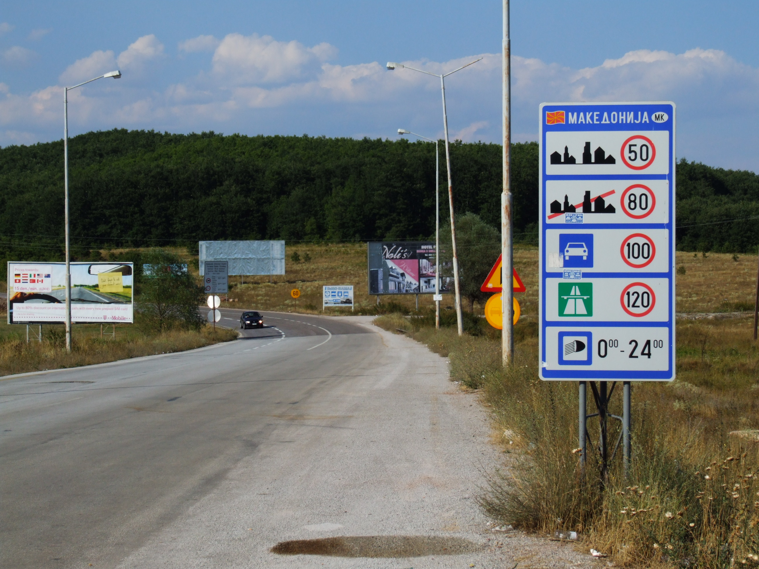 Road M4 in Macedonia, border crossing with Albania